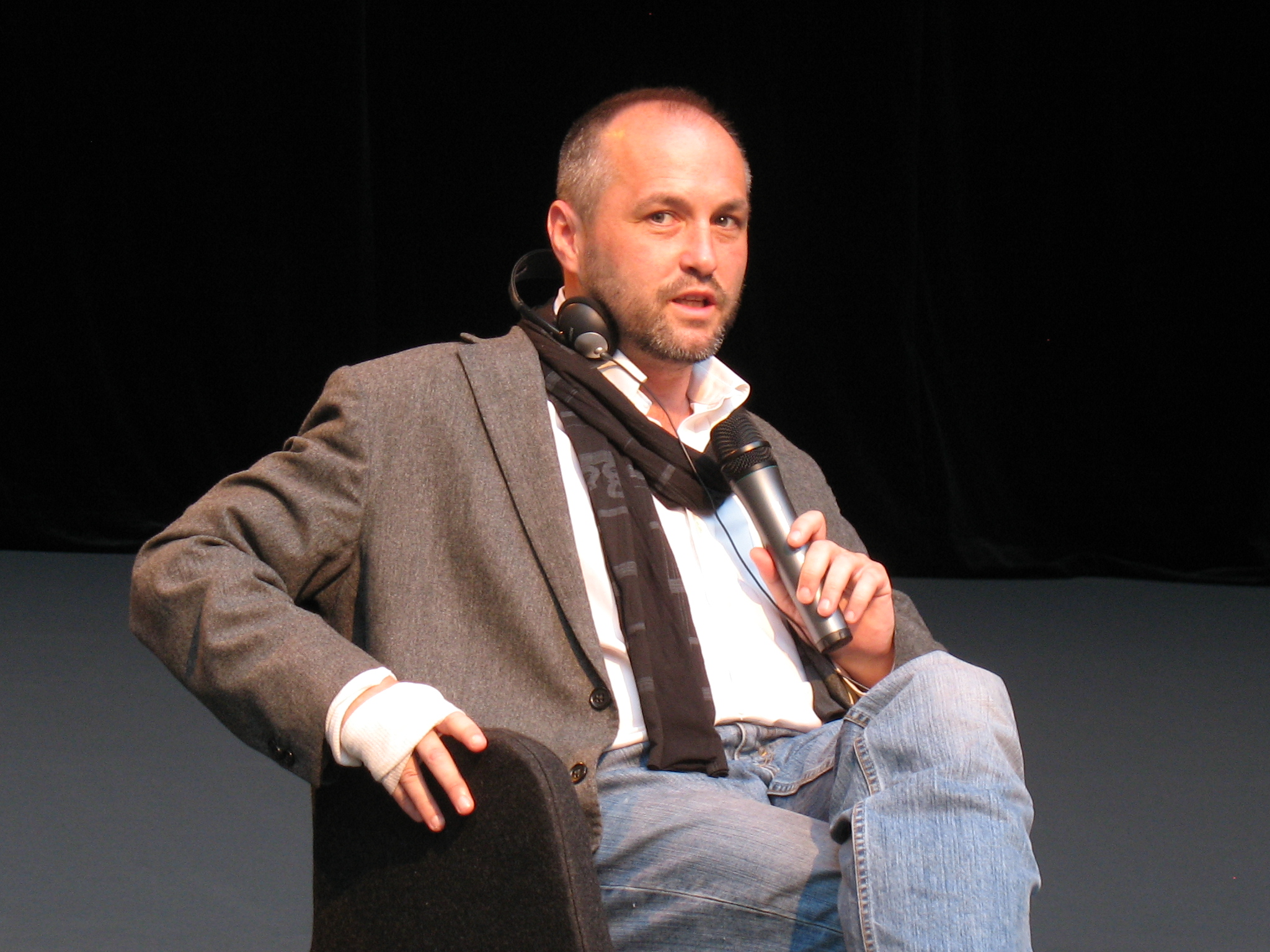 Colum McCann speaking at the International Forum on the Novel, Lyon, France